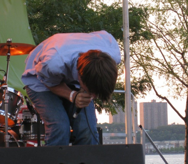 John Maus in 2012.